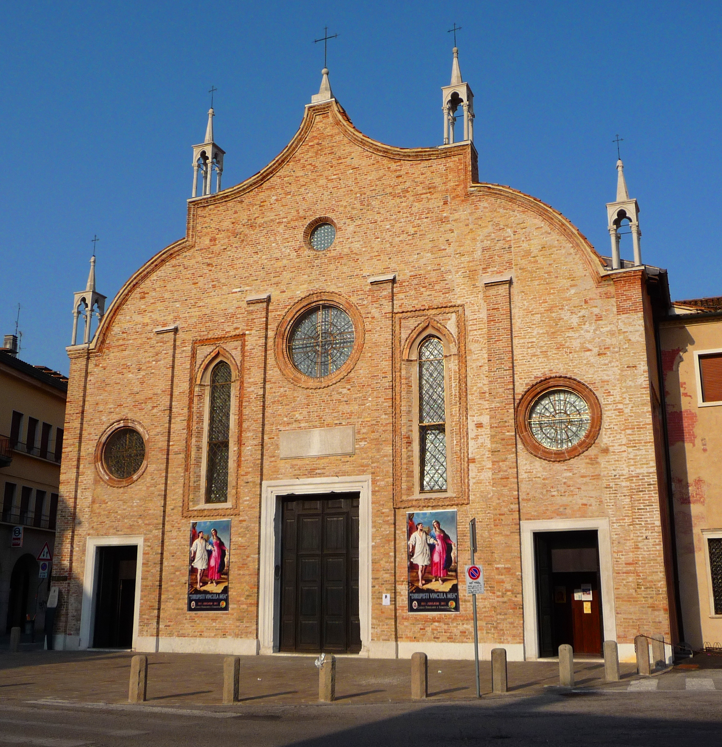 church of Santa Fosca in Santa Maria Maggiore in Treviso (IT)